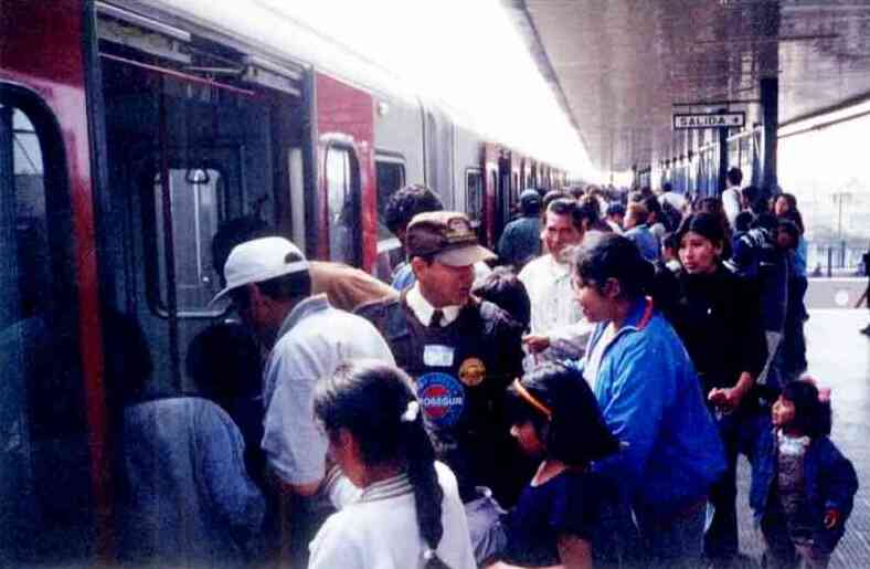 Lima's metro station Atocongo